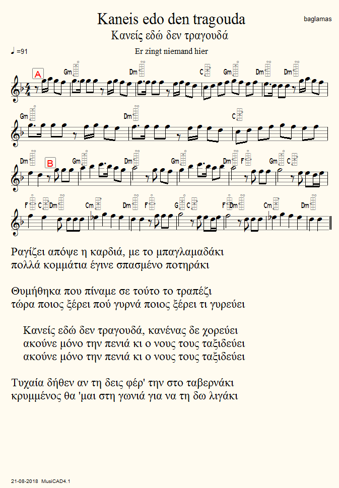 Score of a Greek folk tune 'Kaneis edo den tragouda' created using MusiCAD 4 using color, chord diagrams.UTF8-text.